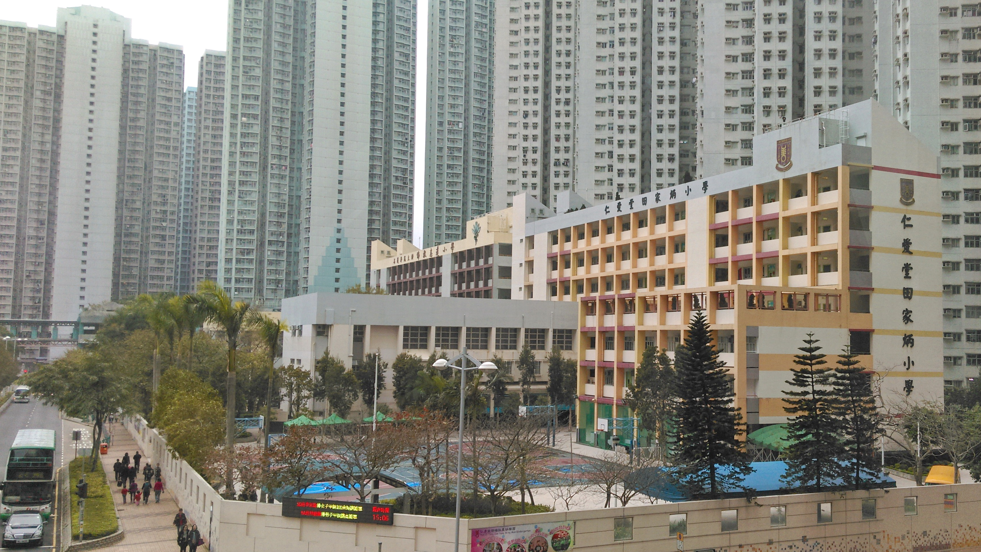 Yan Oi Tong Tin Ka Ping Primary School, Tseung Kwan O, Hong Kong.